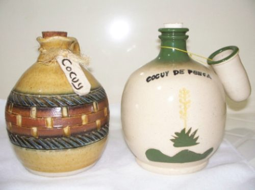 Cocuy bottles